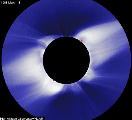 Image taken by High Altitude Observatory of Boulder, Colorado during solar minimum It shows several large helmet streamers restricted to mid latitudes